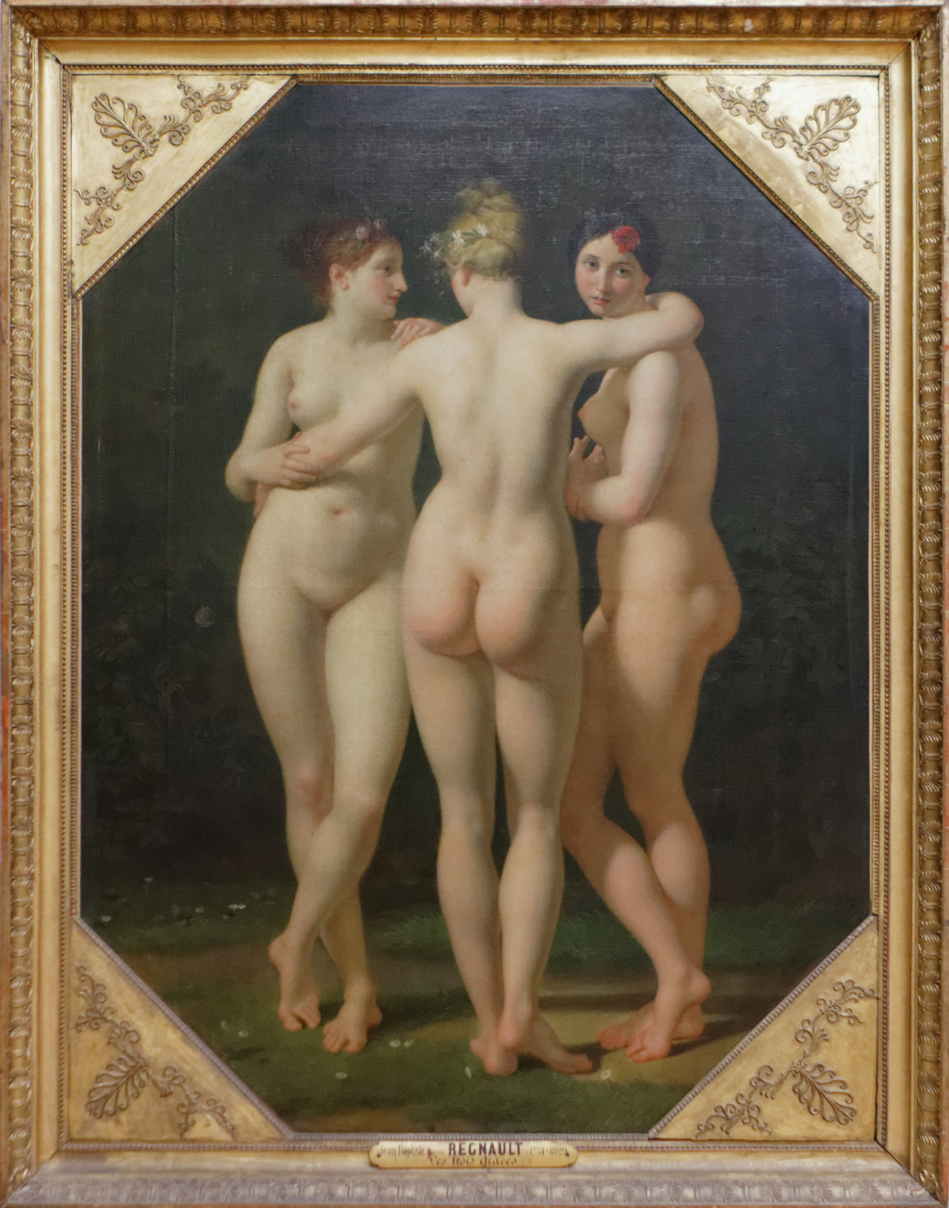 „The Three Graces“, after an antique group now exhibited at the Library of the Duomo in Siena.